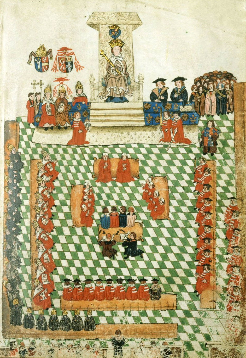 An illustration from the Wriothesley Garter Book of the Parliament of England assembled at Blackfriars in the year 1523. Painted on vellum as part of an heraldic compendium by Sir Thomas Wriothesley (Garter King of Arms, 1505-1534), it is thought to be the earliest surviving contemporary illustration of the Opening of Parliament. Bishops at the king's right hand: Cardinal Thomas Wolsey, Bishop of York, with arms above under a cardinal's hat; William Warham, Archbishop of Canterbury, with arms above. On benches at left: Bishops, and on bench behind them Mitred Abbots of various Abbeys. On benches at right: Peers of the Realm. The status of peers is indicated by the number of miniver bars (white fur edged with gold oak-leaf lace) on their peerage robes: 4 for a duke, 3½ for a marquess, 3 for an earl, 2½ for a viscount, and 2 for a baron. Thus there are 2 dukes, both wearing ducal coronets, the first holding a Marshal's Baton, thus he is the Duke of Norfolk. Three earls kneel before the king, one holding the Cap of Maintenance, another the Sword of State, the third holding a white rod, appears to be the Lord Great Chamberlain. Standing at right, wearing tabard with royal arms: Garter King of Arms. Judges and law officers sit on 4 woolsacks in the centre, with two scribes kneeling at the back of the furthest one from the throne. The group of people behind the throne at the king's left hand appear to be members of the royal retinue. Members of the House of Commons at bottom, outside the bar of the House of Lords, with Speaker in the middle, dressed in black.